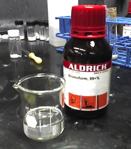 A bottle of Bromoform from the chemical company Aldrich, with a sample poured into a beaker. Used in an experiment involving seashell mineral separation.